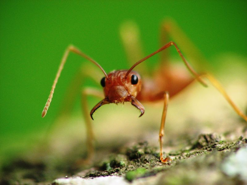 Weaver ant (Oecophylla smaragdina) major worker